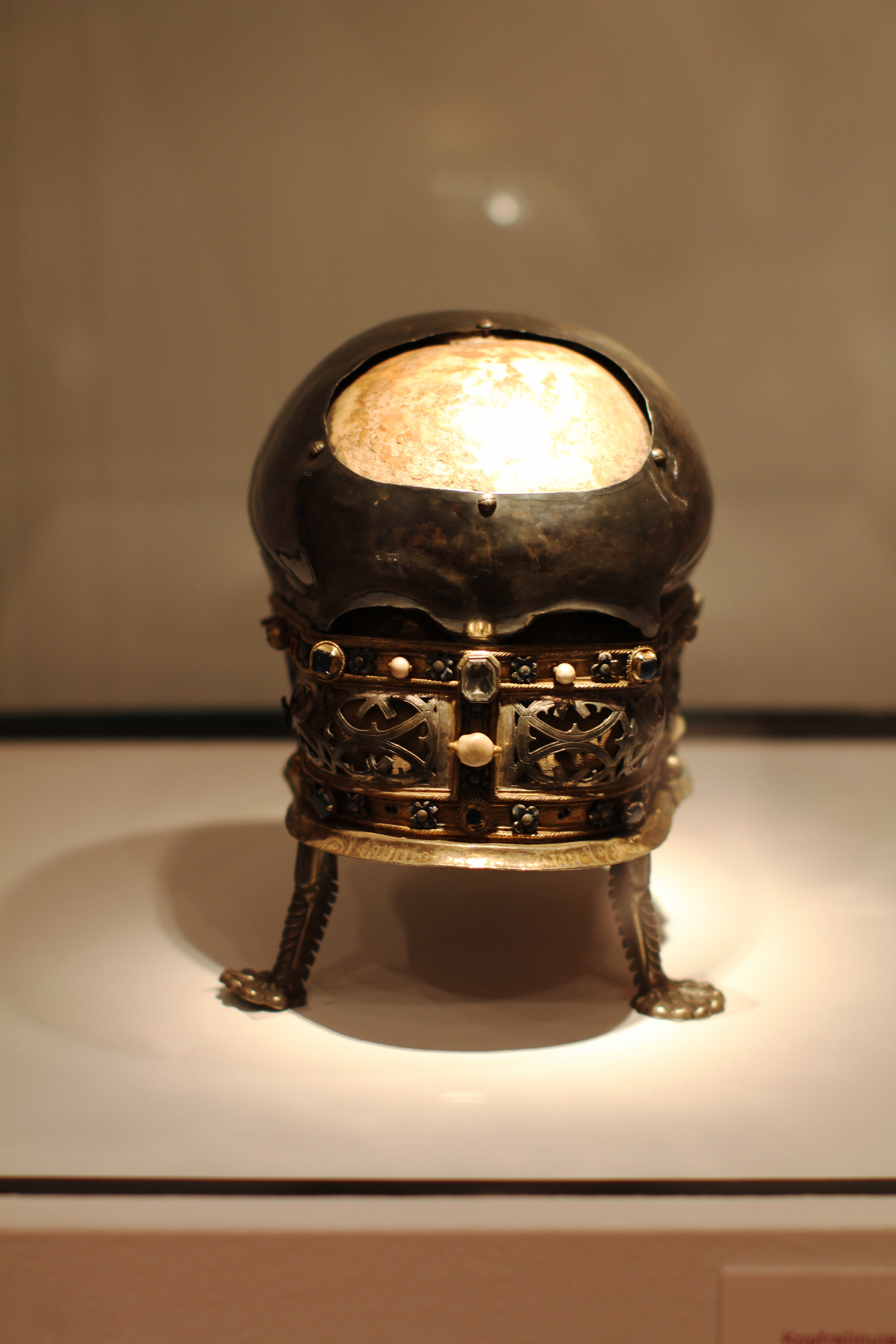 Rreliquary of a former Cologne Benedictine cloister in 1520